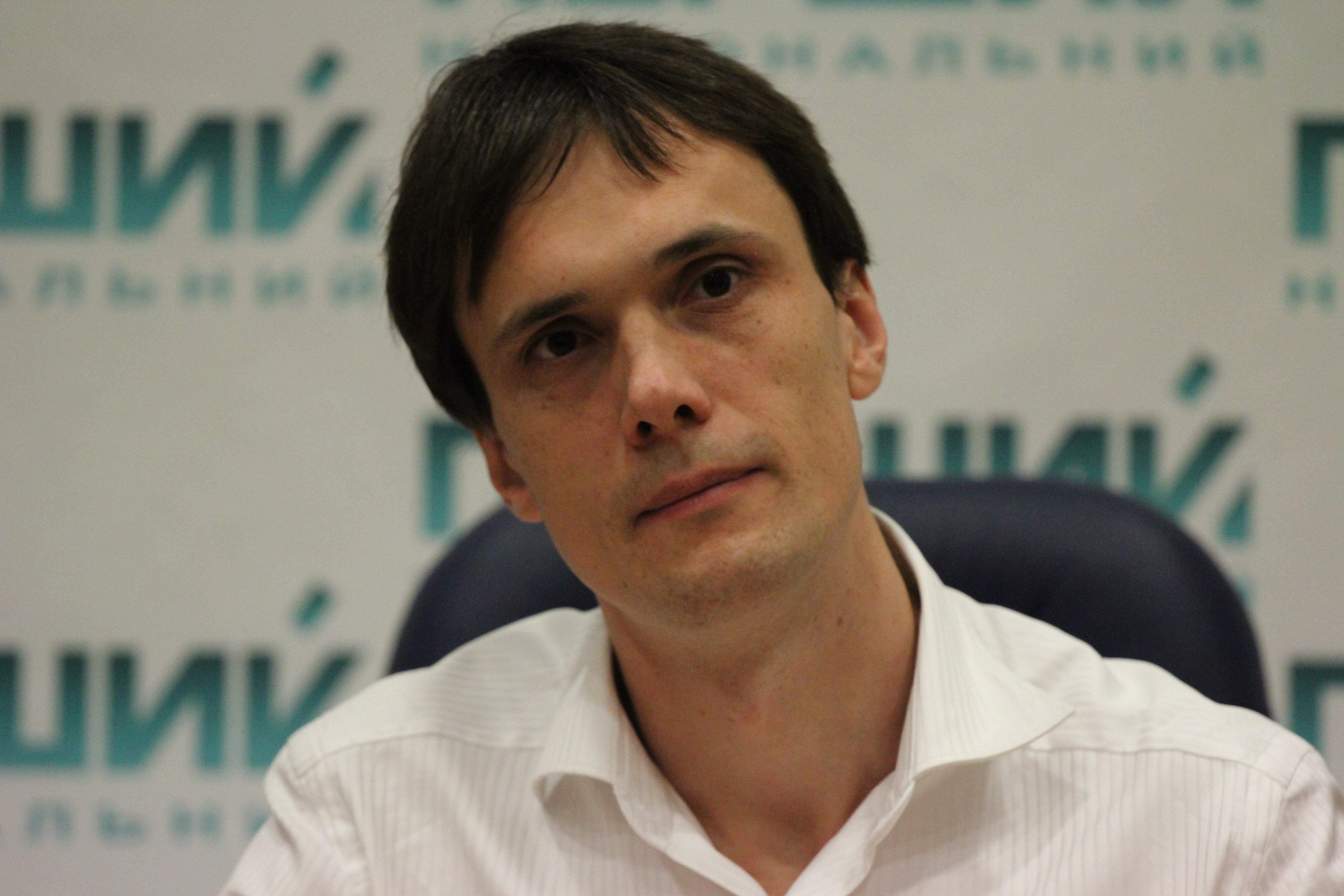 Iegor Benkendorf